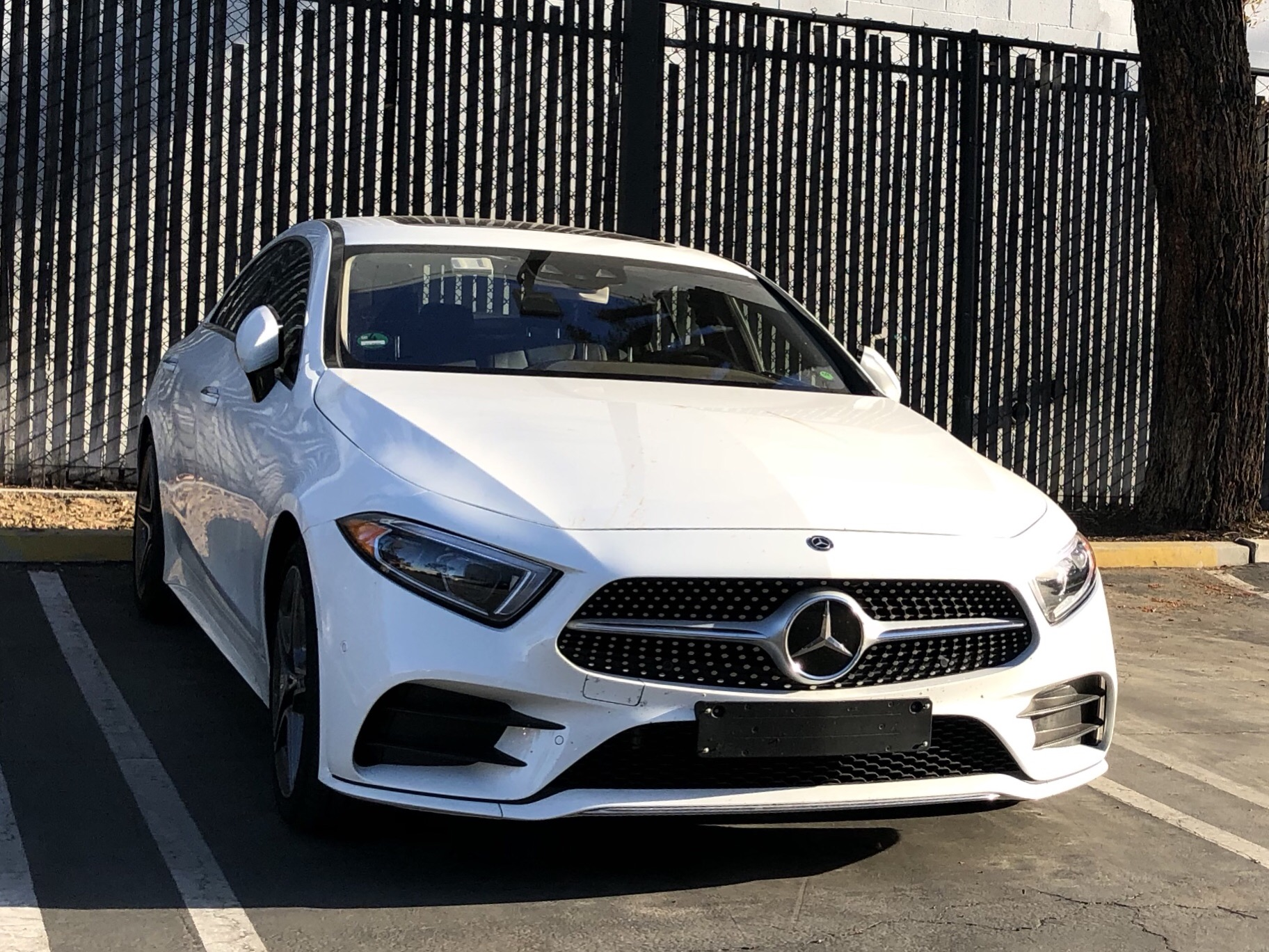 White CLS C 257.